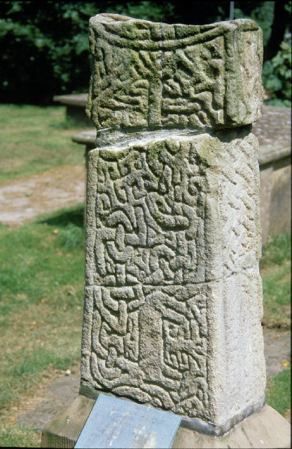 Saxon cross, Prestbury churchyard.